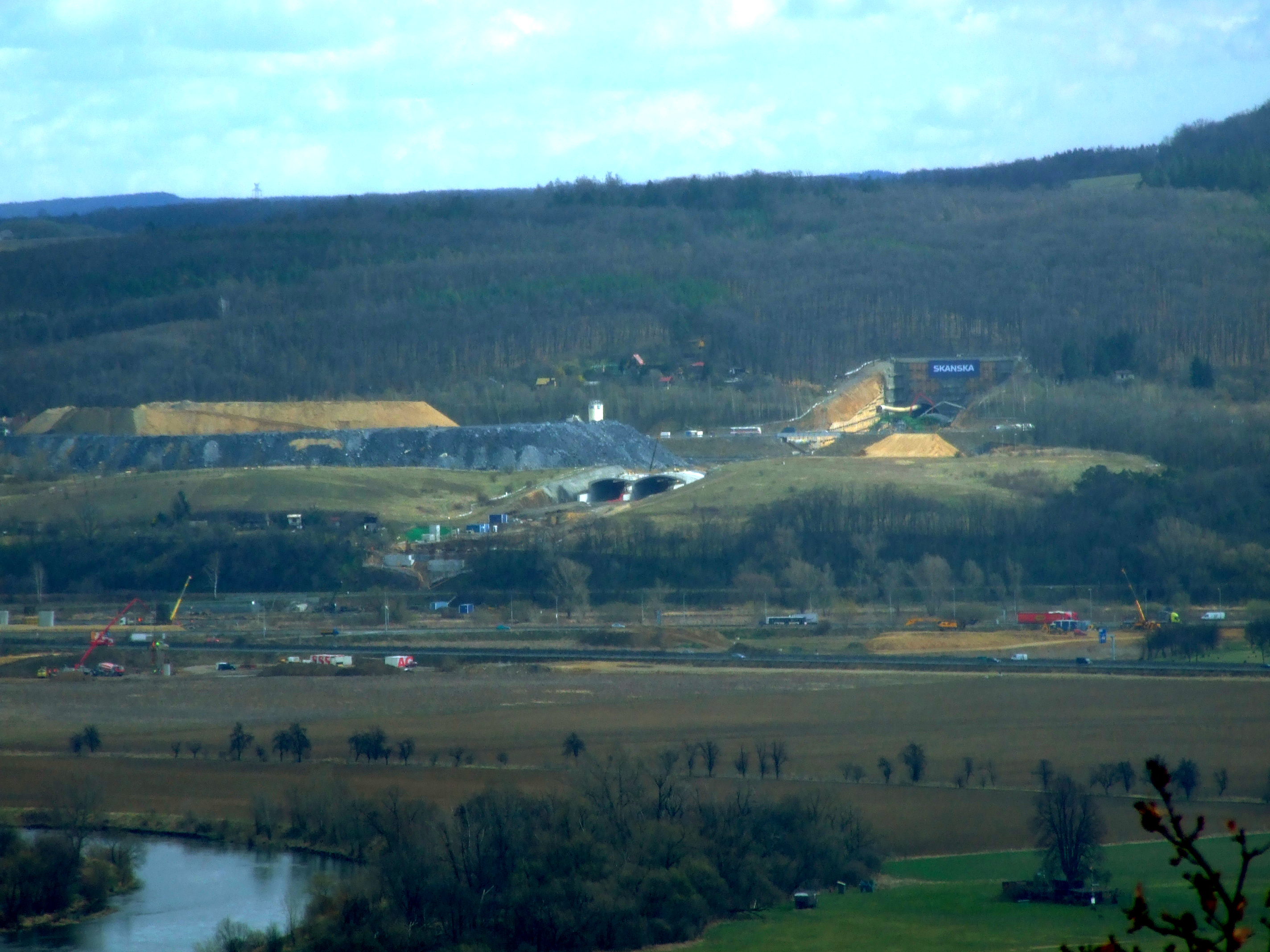 Western portal of the Cholupice-Komořany road tunnel in Prague